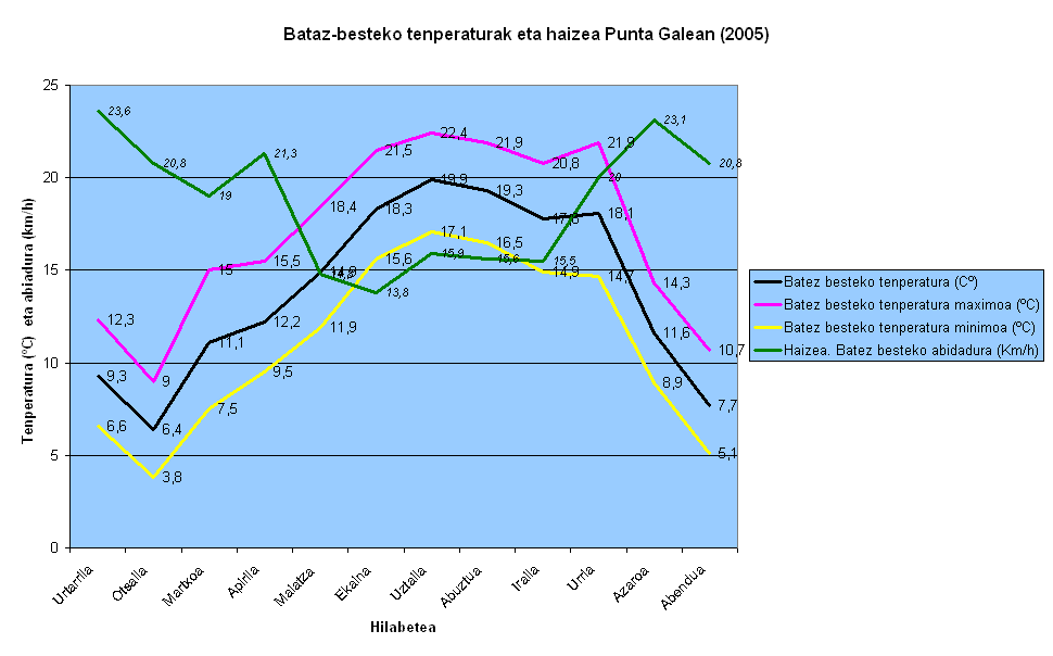 Temperatures and wind speed in Punta Galea, Getxo, Basque Country.